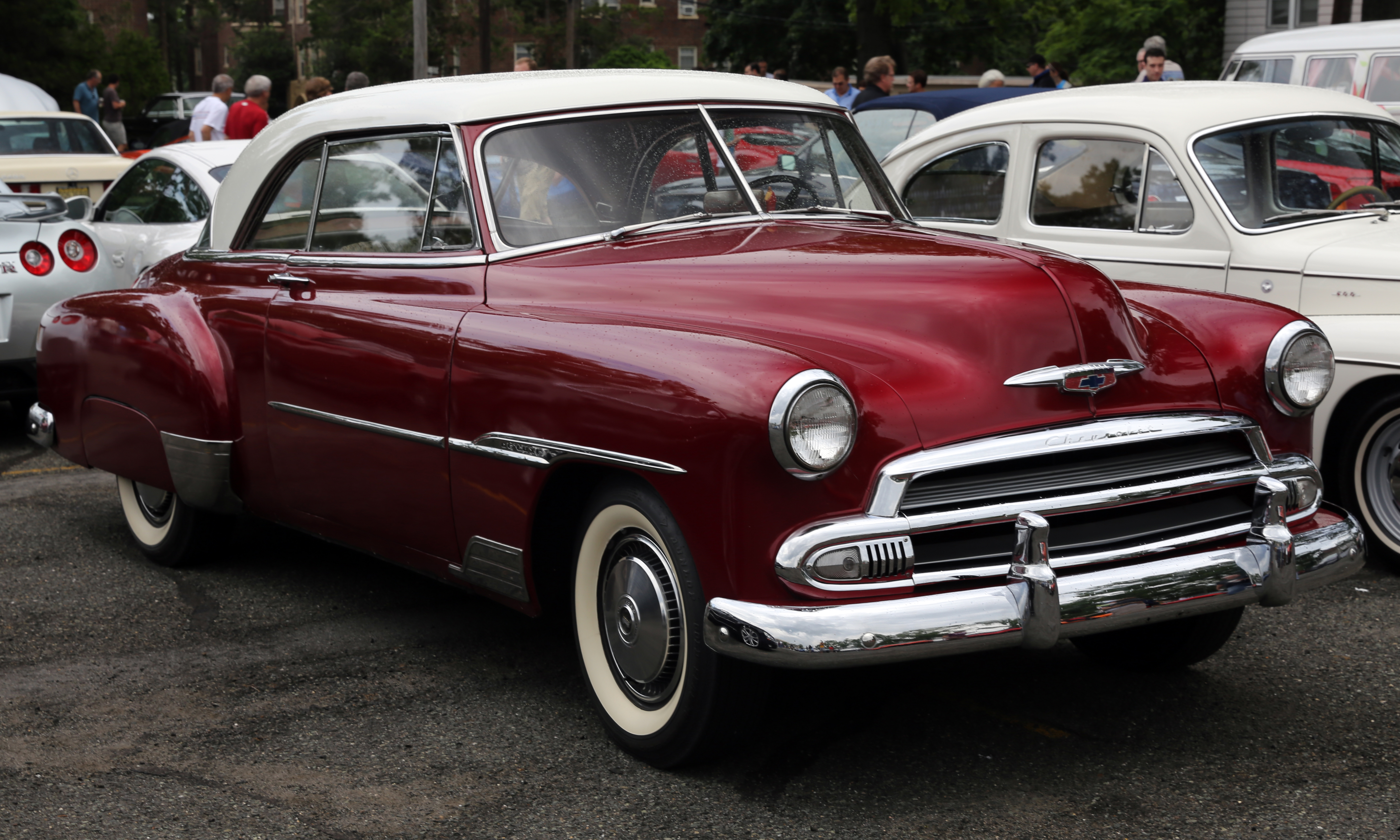 1951 Chevrolet Deluxe Bel Air Hardtop Coupé.